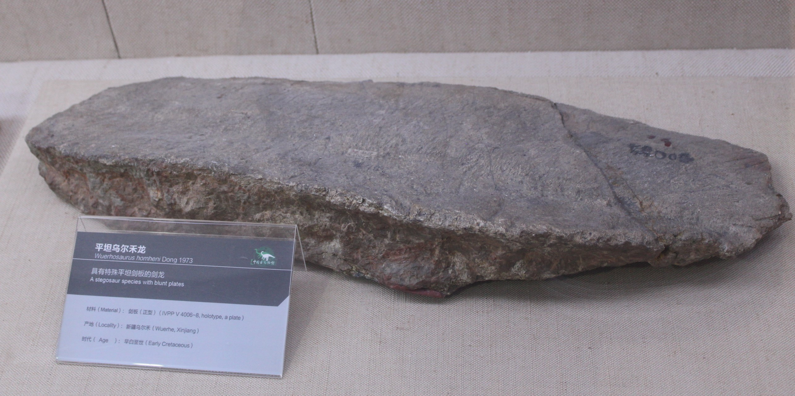 Holotype plate of Wuerhosaurus homheni on display at the Paleozoological Museum of China.